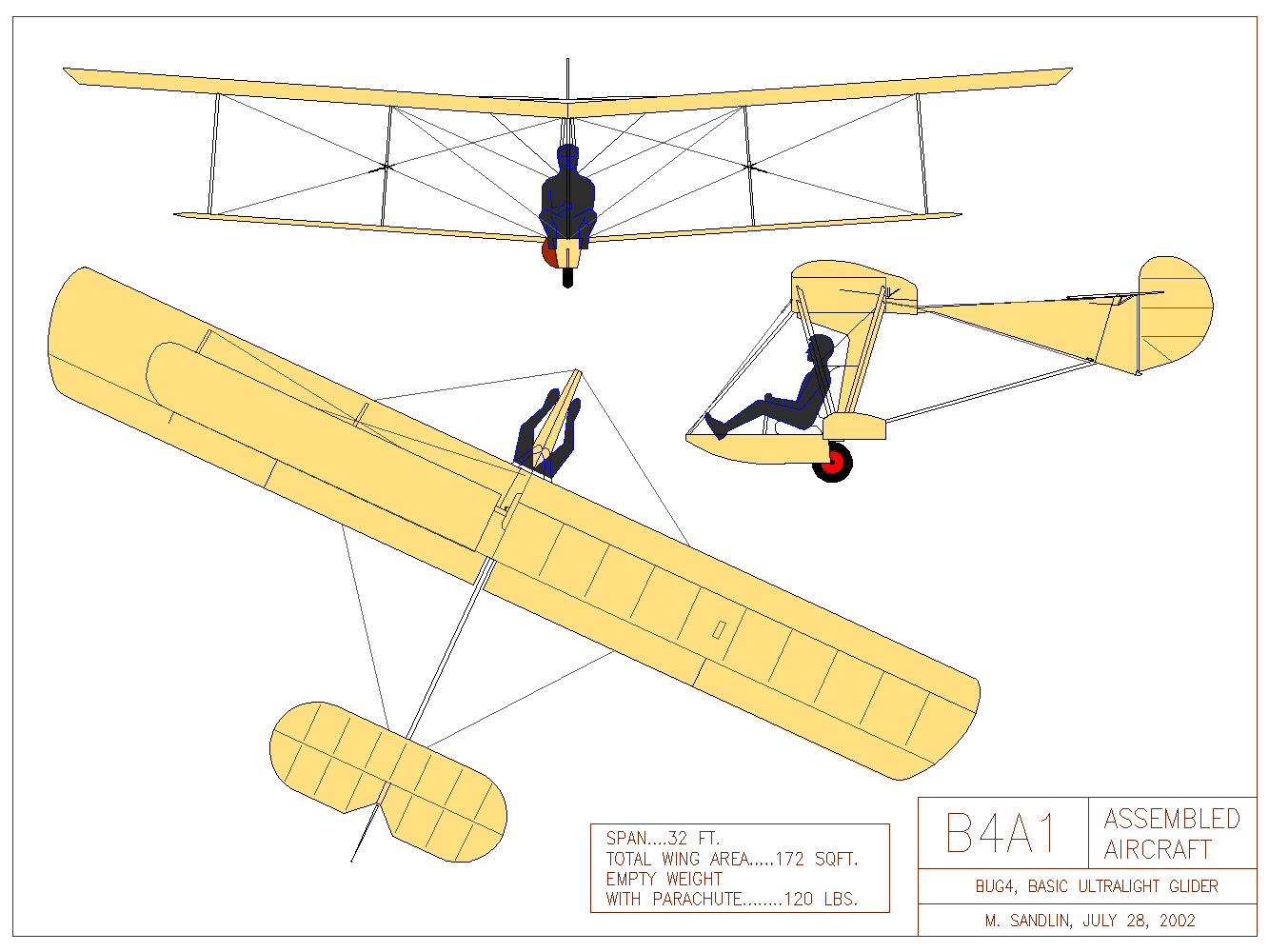 Technical drawing of the Sandlin Bug 4 glider taken from the set of public domain drawings. Converted from .gif to .png file format.